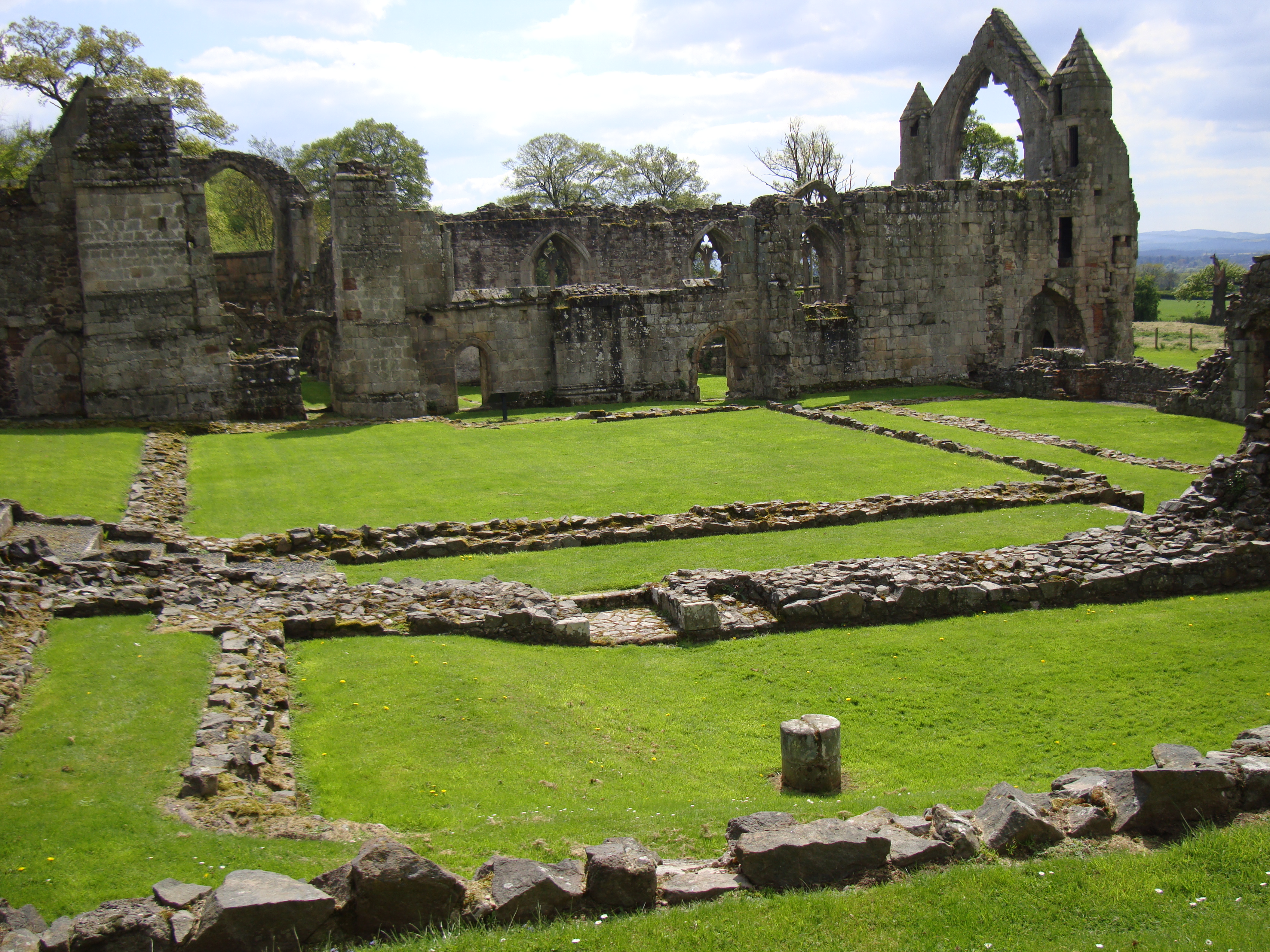 Photograph of Haughmond Abbey, Shropshire, England